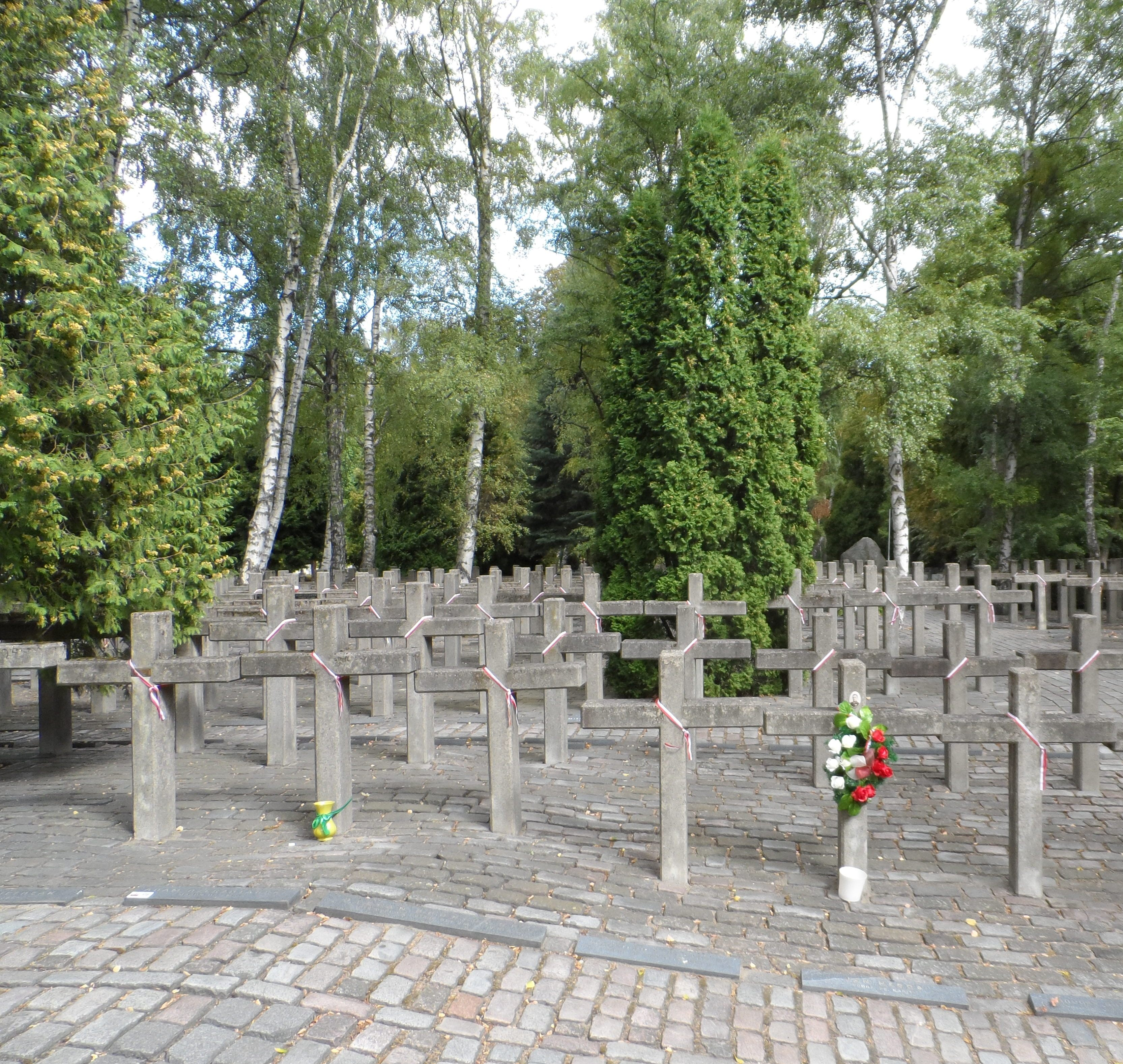 The Armia Krajowa’s Sub-district II “Żoliborz” quarter (so-called “Żywiciel” quarter) at the Military Cemetery in Warsaw.